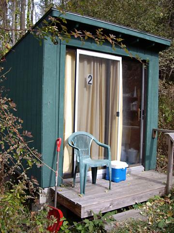 This is Retreat Hut #2, in the Retreat Hut Field on the main campus of the Abode of the Message, a spiritual intentional community in New Lebanon, NY, associated with the Sufi Order International. This small meditation hut is used for Sufi and other individual meditation retreats.